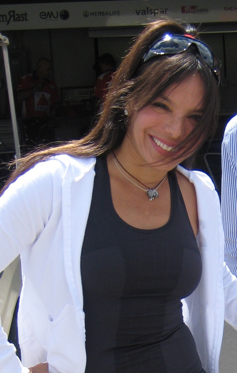 Milka Duno at the Indianapolis Motor Speedway for Bump day qualifications for the 2008 Indianapolis 500.